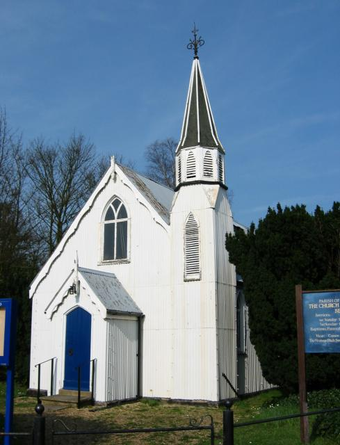 The Church of The Ascension near Bedmond, England. A perfect example of the tin tabernacle design, and still in fairly good condition.